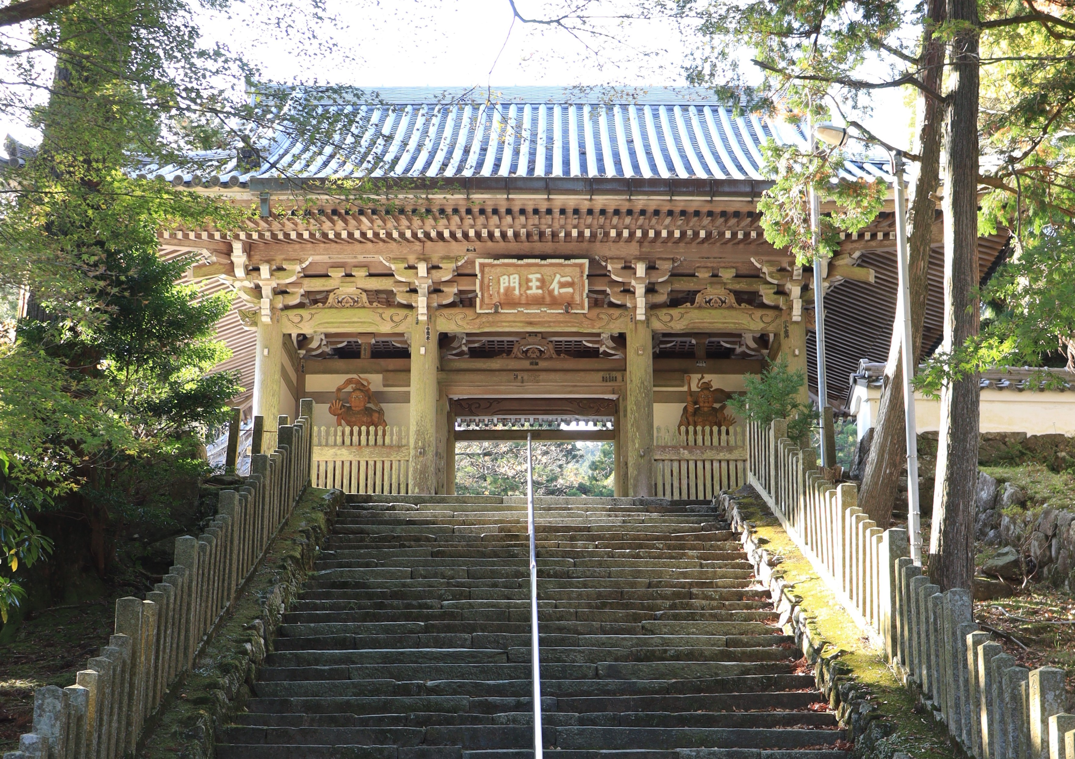 Niomon of Kongōshō-ji in Ise, Mie Prefecture, Japan.